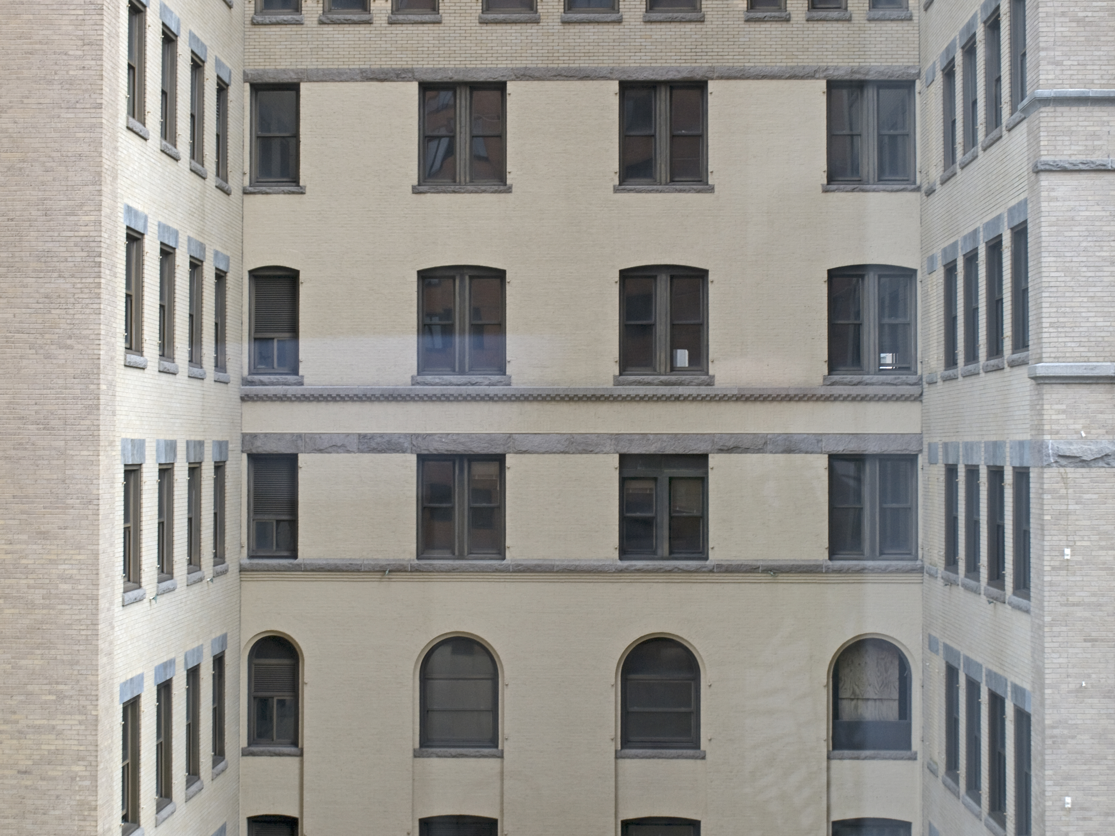 Close-up view of the Fidelity Building, Baltimore